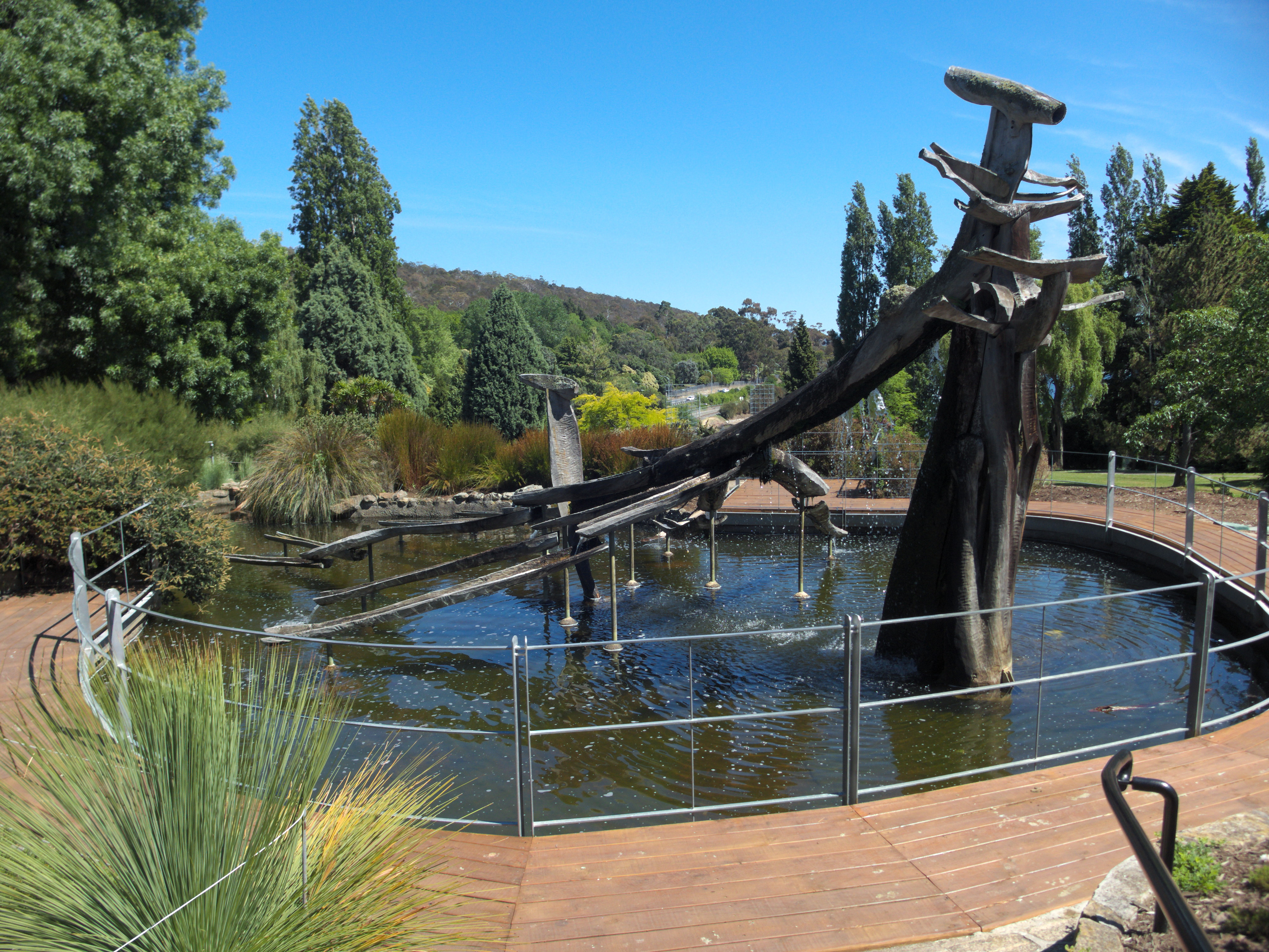 French Memorial Fountain, a 1972 sculpture by Stephen Walker in the Botanical Gardens in Hobart. It marks the bicentenary of the sighting of Tasmania by Marc-Joseph Marion du Fresne's expedition in March 1772, and the contribution of early French explorers and scientists to the understanding of Tasmania. Made from Huon Pine, and representing the bow and sails of a French ship.